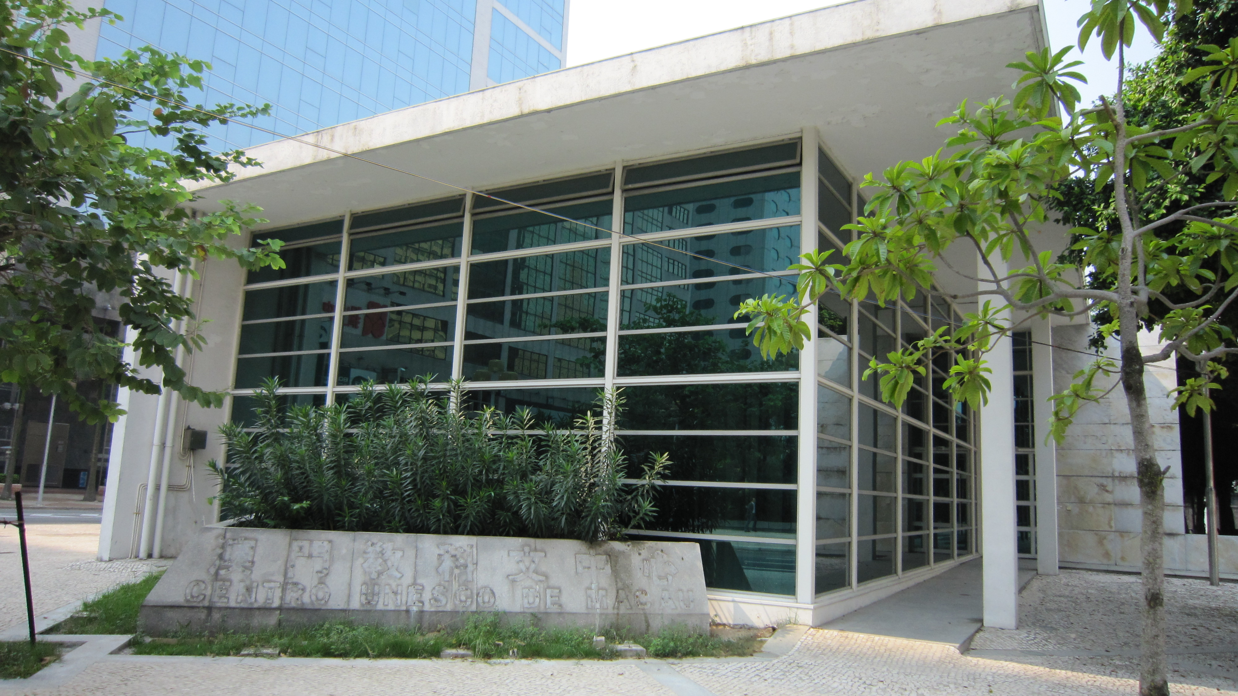 Centro UNESCO de Macau